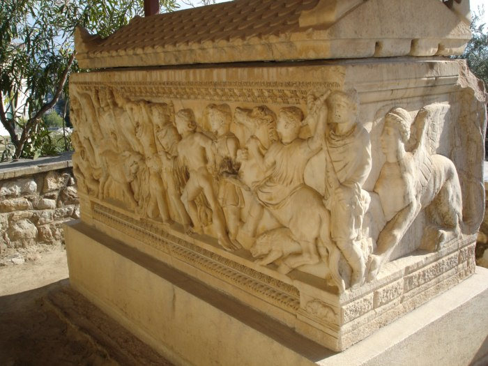 Marble sarcophagus with a relief about the hunt of the Calydonian boar on its main face, from the archaeological museum of Eleusis - 2nd cent. AC.